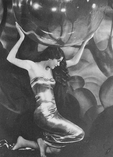 Marguerite Churchill